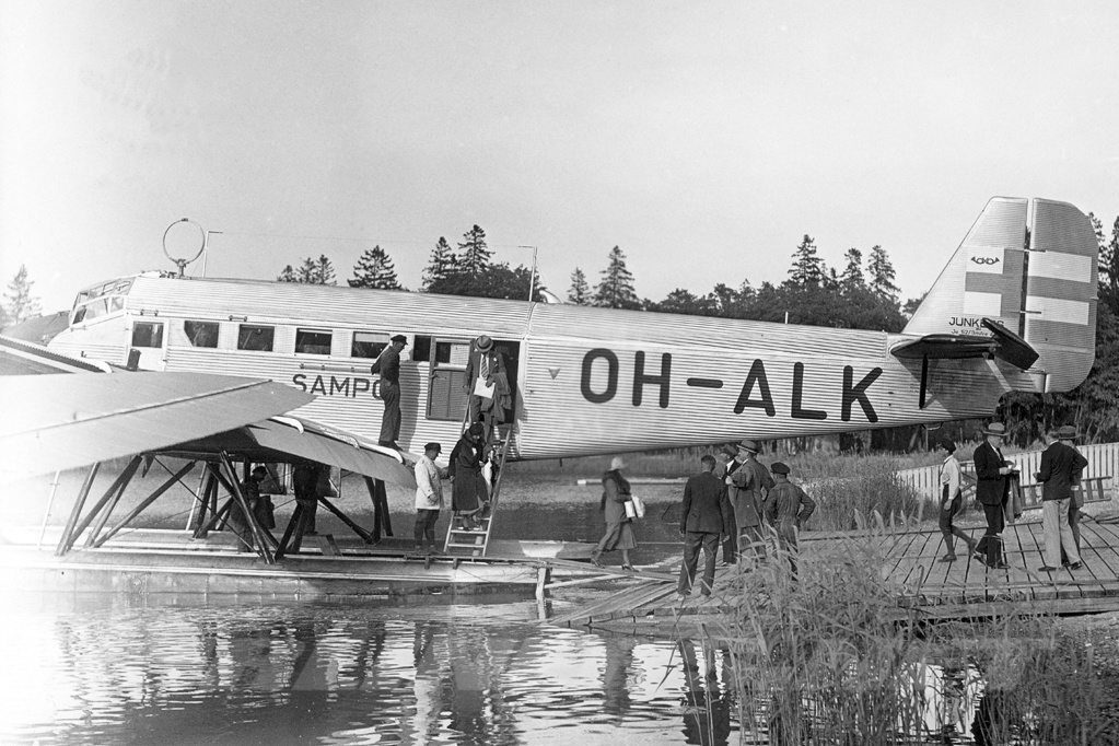 Stockholm - Lindarängen